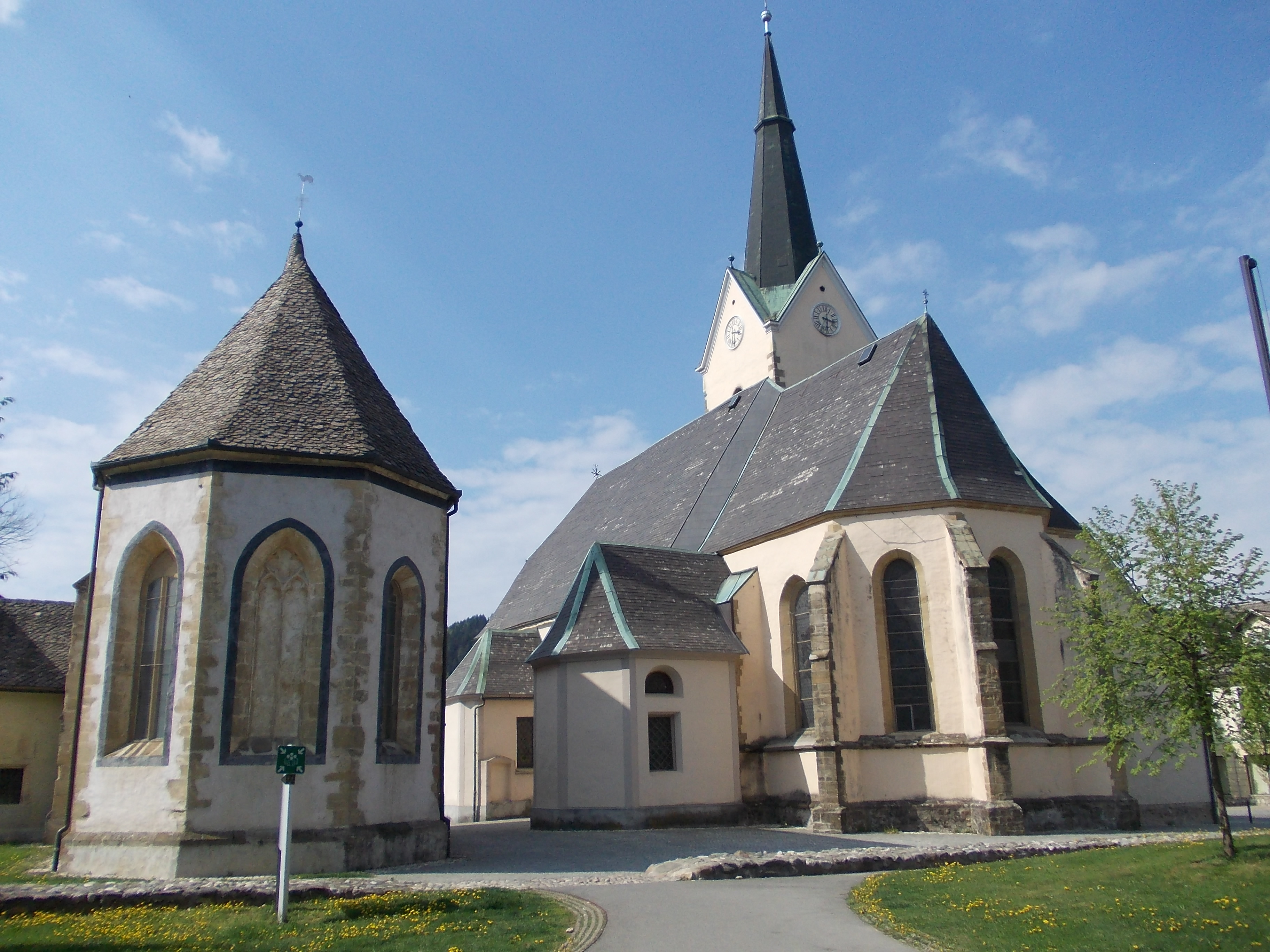 St. Elizabeth of Hungary Parish Church and Holy Spirit Church (Slovenj Gradec)